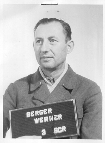 s.u.